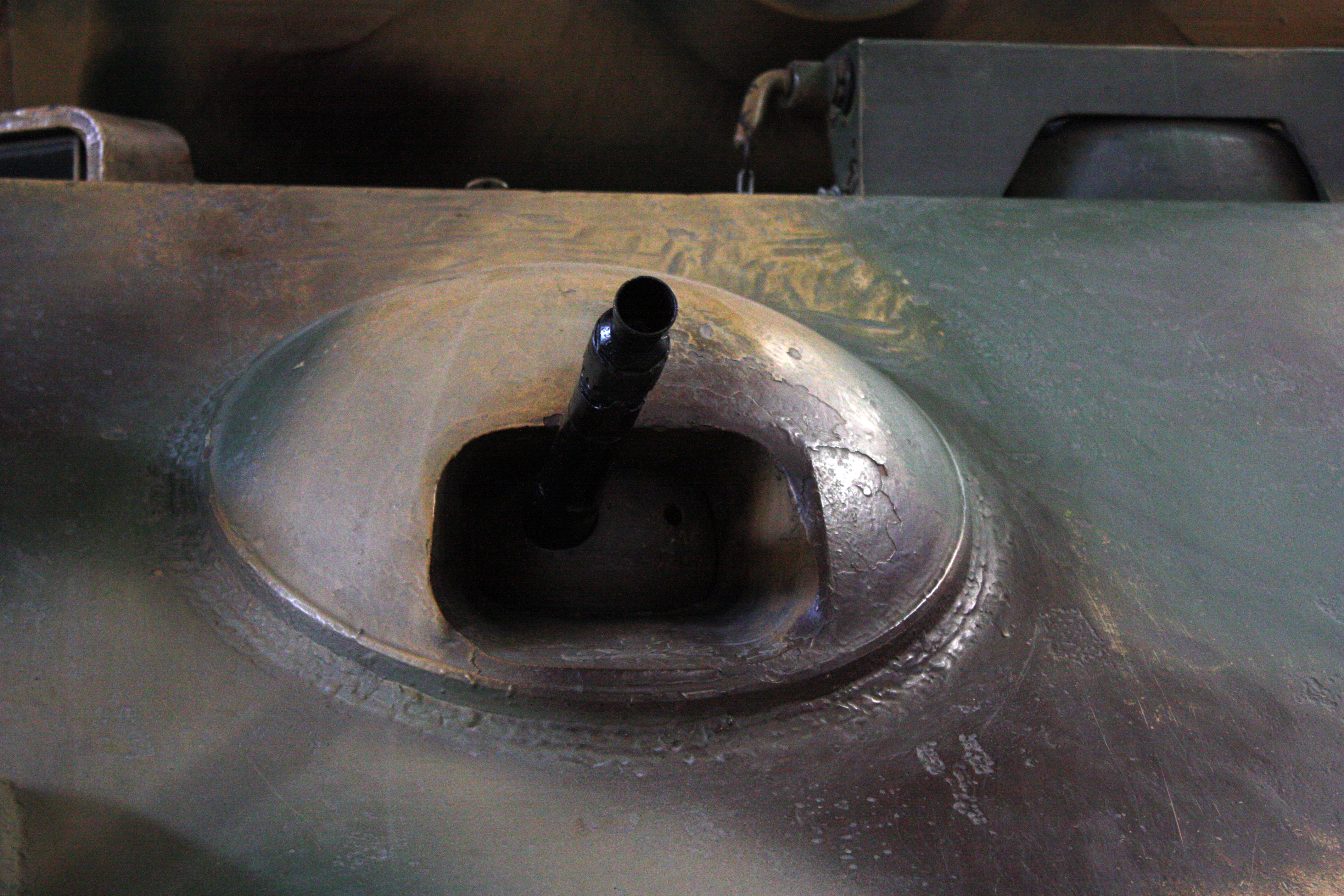 MG 34 Bow-MG of a Panther Ausf. A, on display at the German Tank Museum in Munster (Örtze)